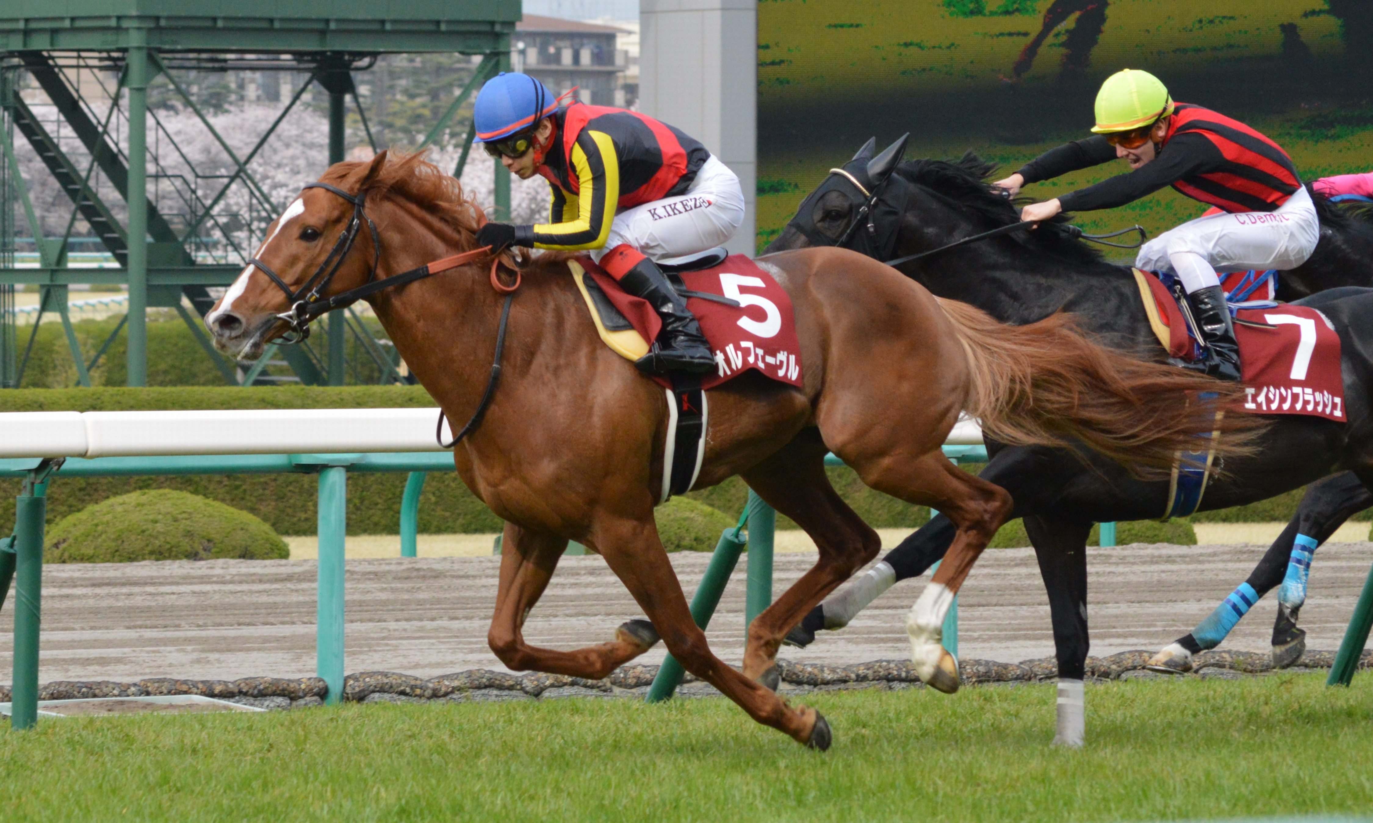 Japanese race horse Orfevre at Hanshin racecourse. Hanshin (JPN) 31 Mar 2013 Sankei Osaka Hai Stakes (Grade 2) (Turf) (4yo+) 1m2f Firm RankHorse NameOddsAgeWgtJockeyTrainer1stOrfevre (JPN)1/5FH59-2Kenichi IkezoeYasutoshi Ikee2ndShonan Mighty (JPN)43/5H59-0Suguru HamanakaTomoyuki UmedaOthers are omitted. (14 horses entered in a race.)